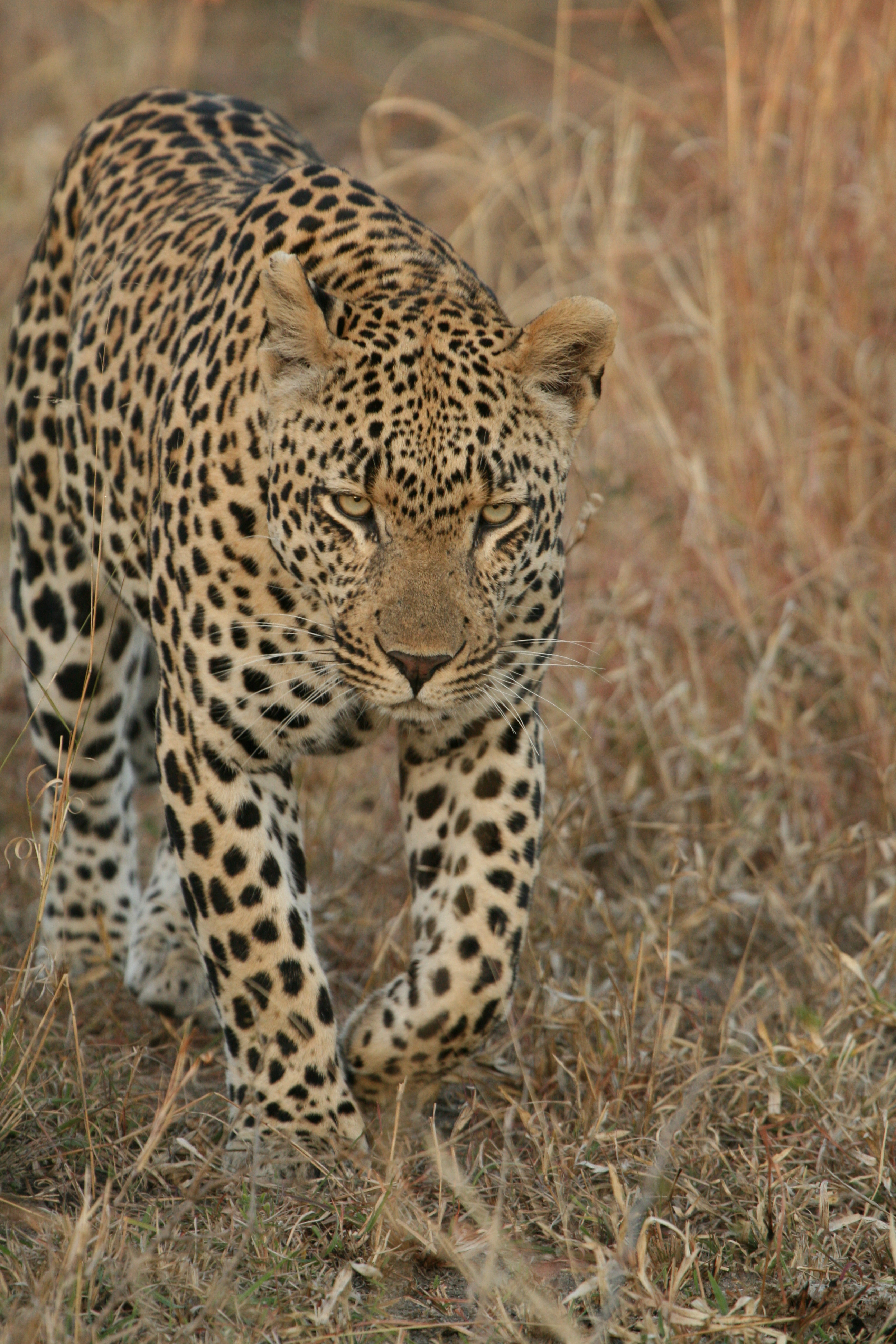 Male leopard Panthera pardus, Londolozi South Africa. 2011. Photo by Lee R. Berger